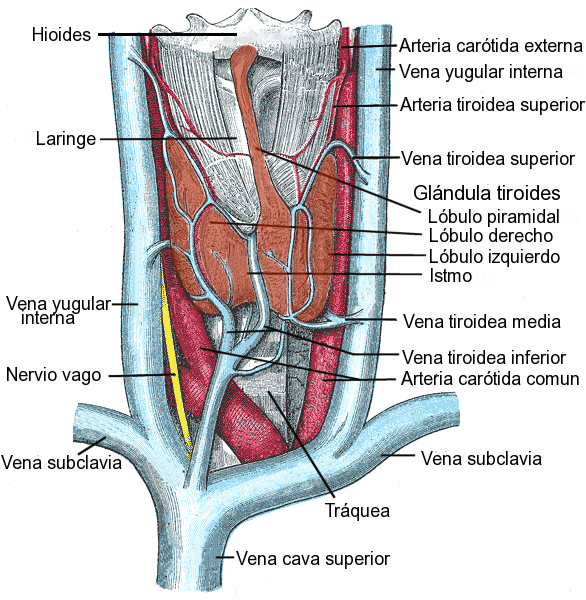 this is a version of tryroid2.png with legend in spanish